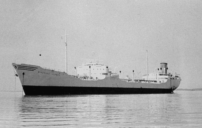 Tanker Windward Island by the Swedish shipping company Salén - 1959-1960